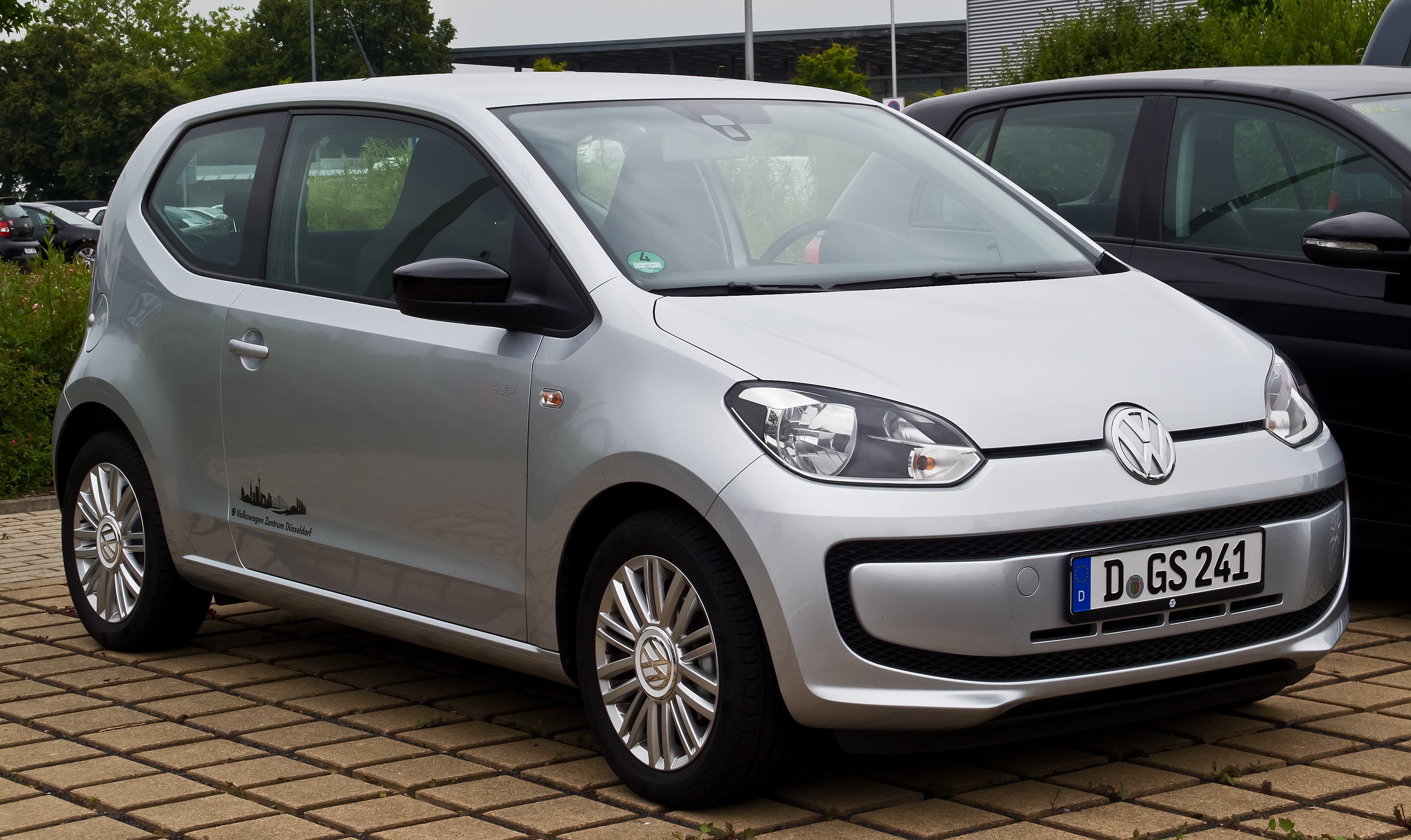 VW cup up! 1.0 BlueMotion Technology